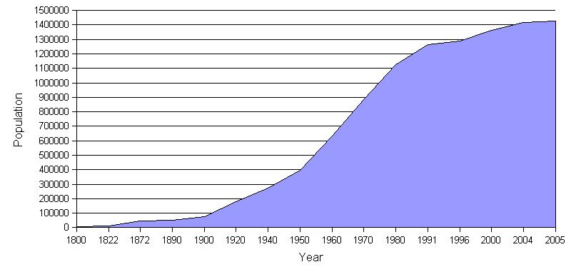 Porto Alegre's Populational Evolution Diagram made from the information at the Portuguese Wikipédia.